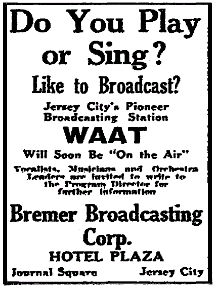 Advertisement by the Bremer Broadcasting Corporation soliciting performers for radio station WAAT in Jersey City, New Jersey, which had studios in the Hotel Plaza.